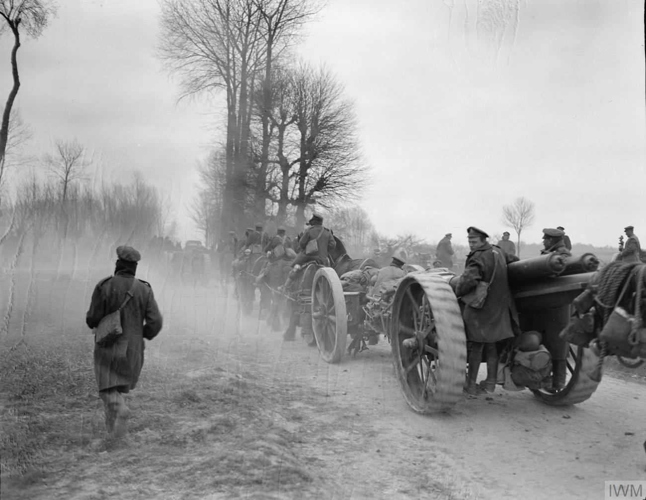 Photograph of British 60 pounder Mk I Gun being towed at speed - note blurred wheels, cloud of dust, trotting horses, anxious appearance of crew. The steel traction engine wheels identify this as a Mk II carriage. The caption in "Kaiserschlacht 1918" by Randal Gray correctly describes this scene as occurring during the British retreat forced by the German attack on the Somme of March 1918. The gun is incorrectly described as a Mk II in the book. The caption in "The Times History of the War" 1919 incorrectly described the scene as "British Guns Going Forward".